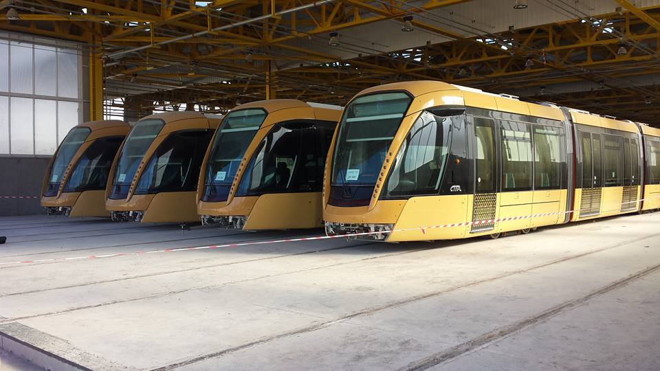 Tramway SBA photo 03